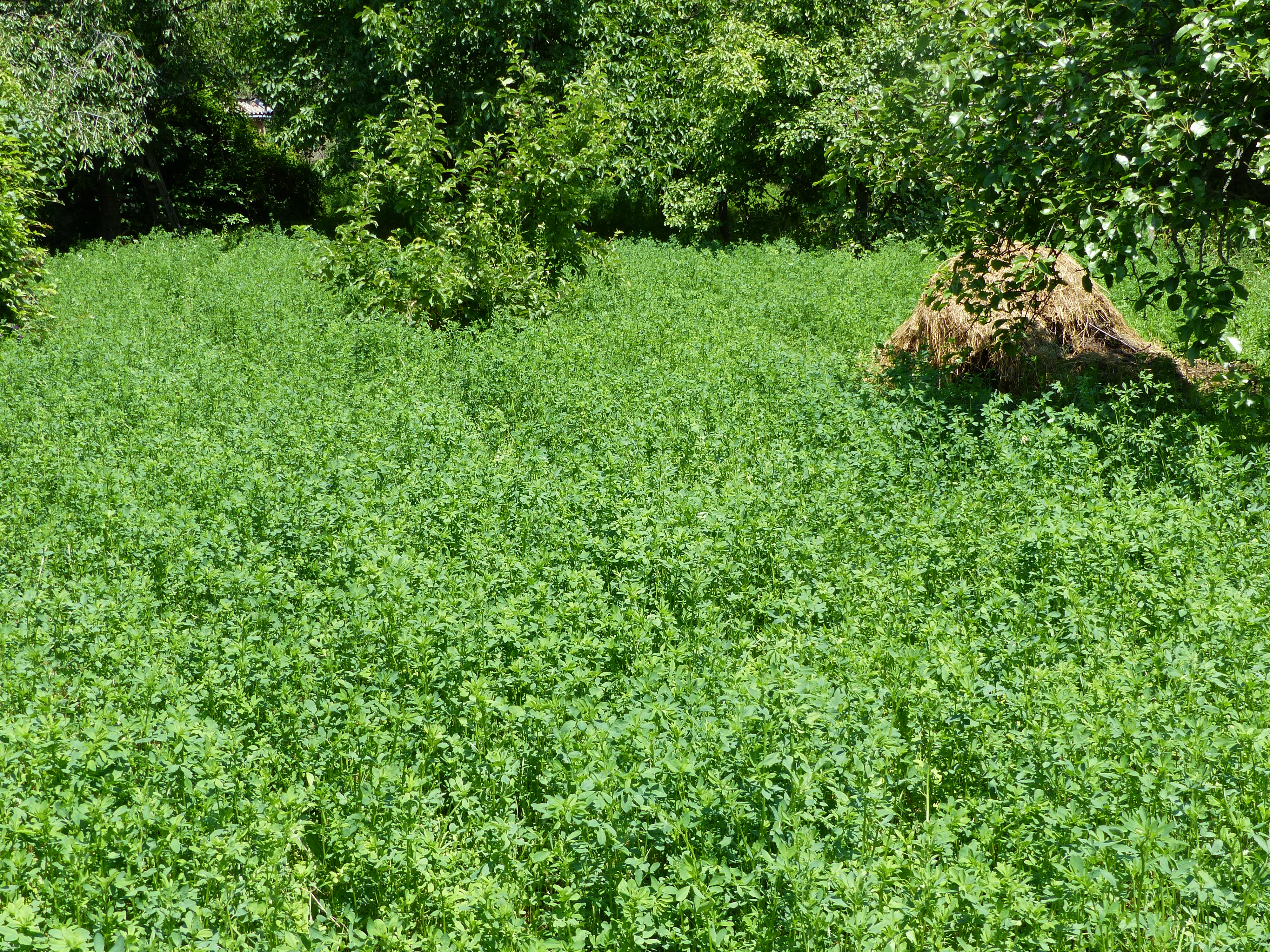 Taken on the 6th of June, 2016. Hurok utca, Budaörs.